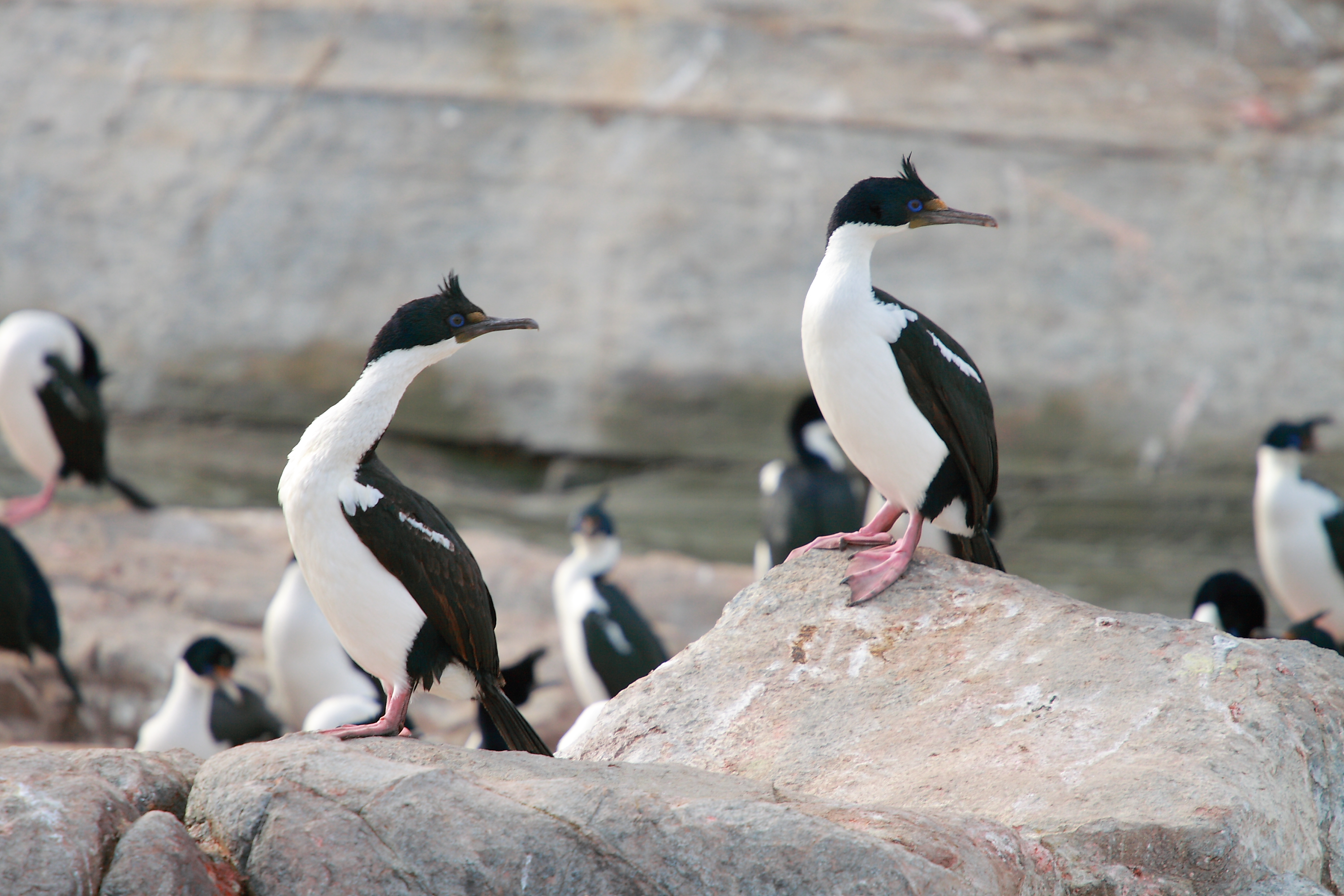 Imperial Shags in the Beagle Channel, southern Argentina